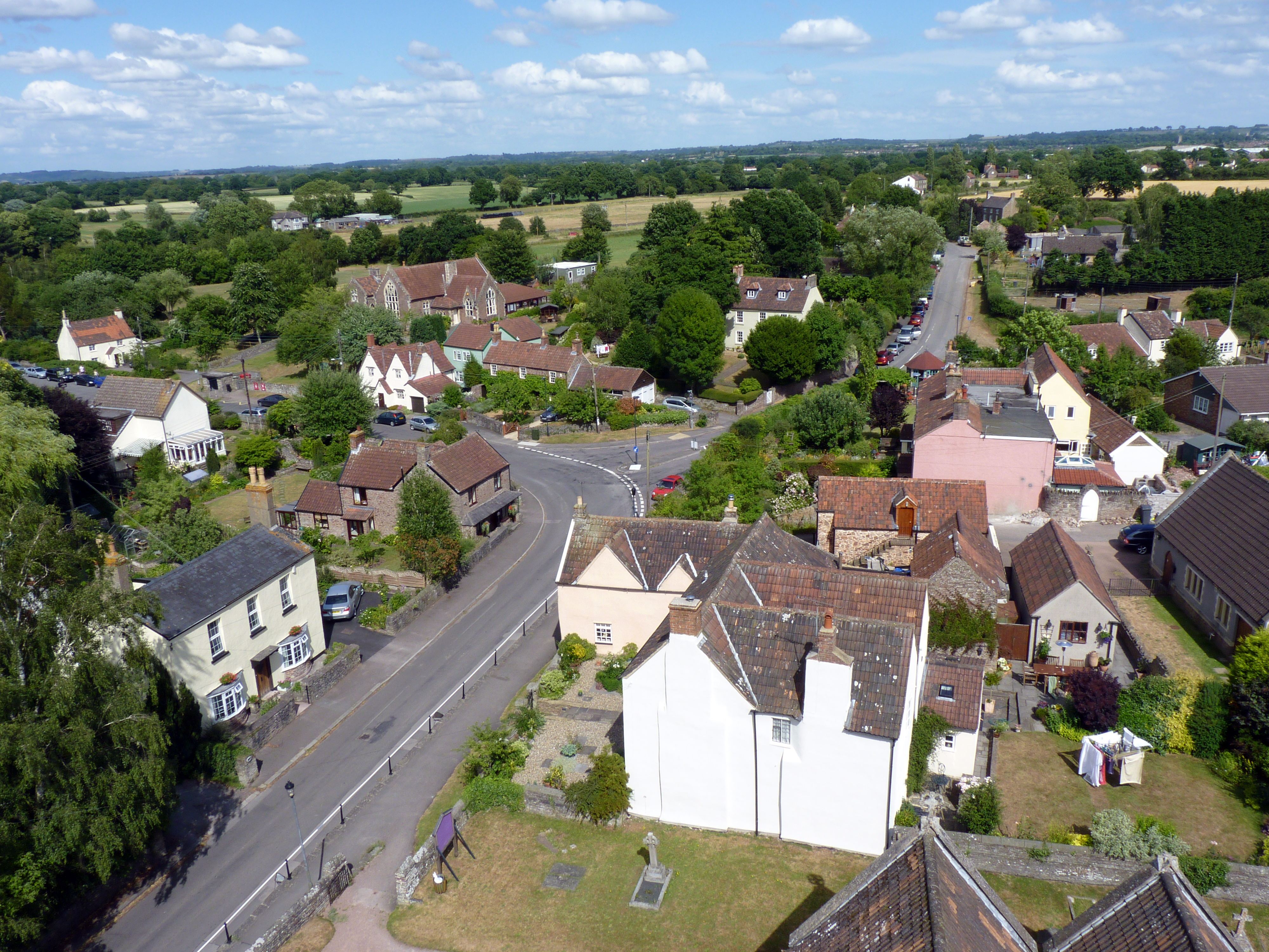 Photo of the High Street, looking West. Taken from the top of the Church St James the Less (Iron Acton, South Gloucestershire, England)